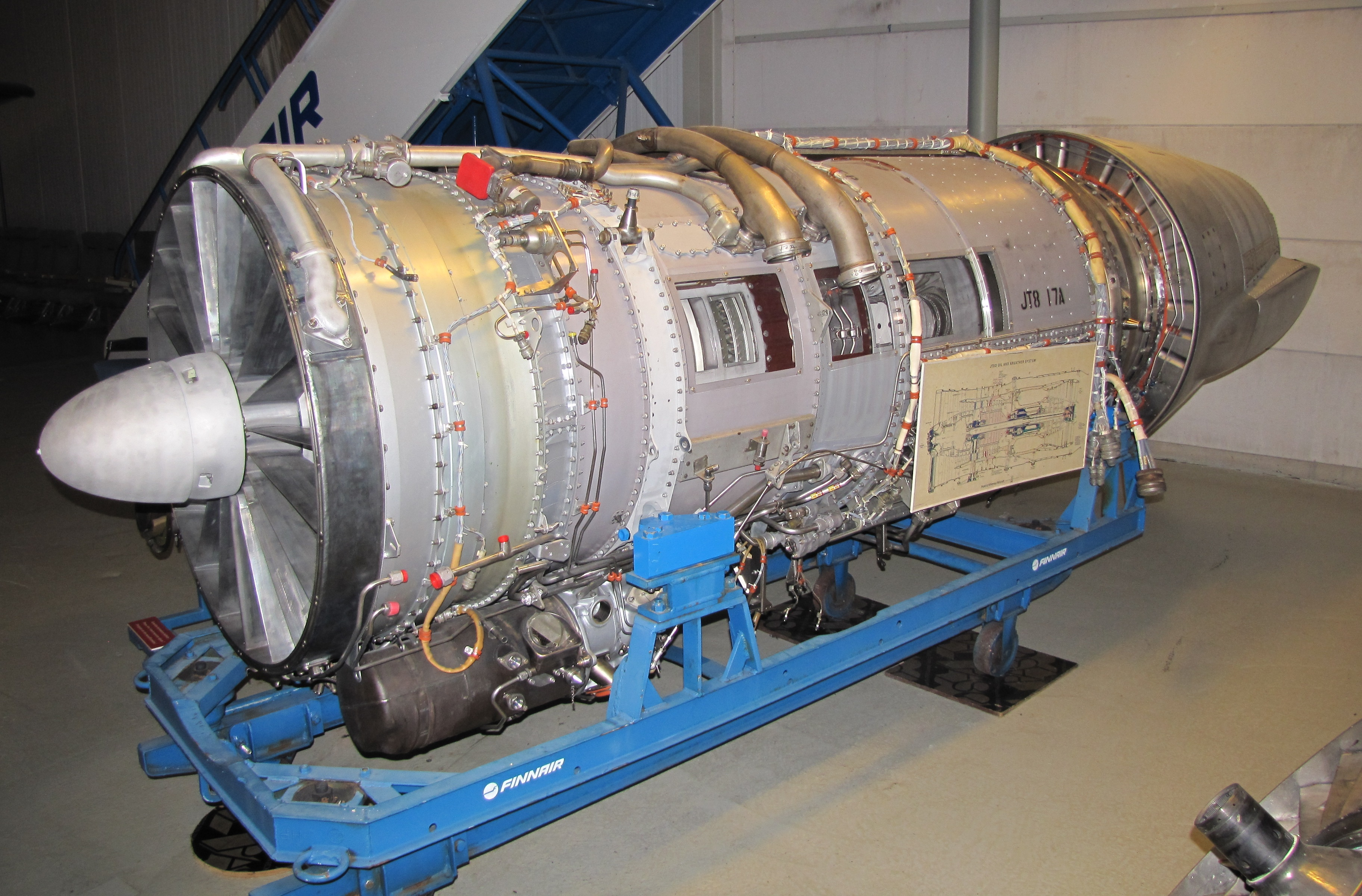 Pratt & Whitney JT8D-17A turbofan engine, used by Finnair in DC-9-50 aircraft. Total flight time 33 869 hours in 37 924 flights. Serial number 696759, photographed in Finnish Aviation Museum.